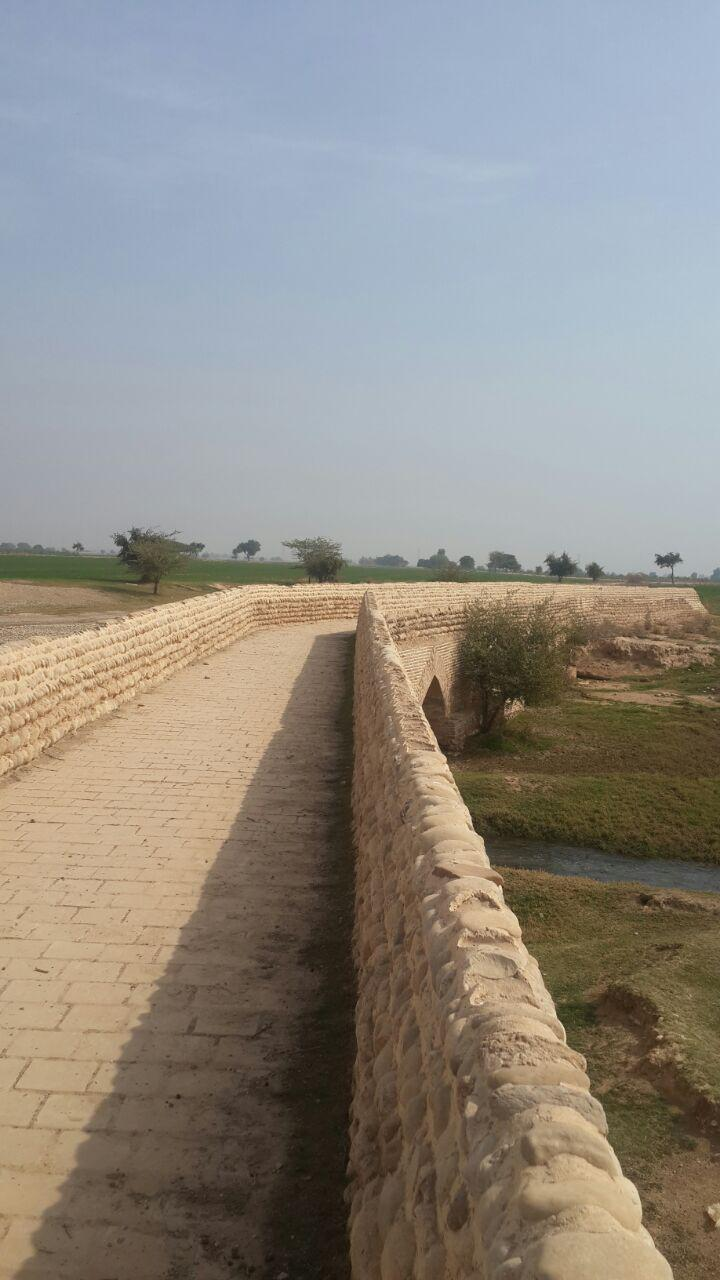 IRAN ANDIMESHK